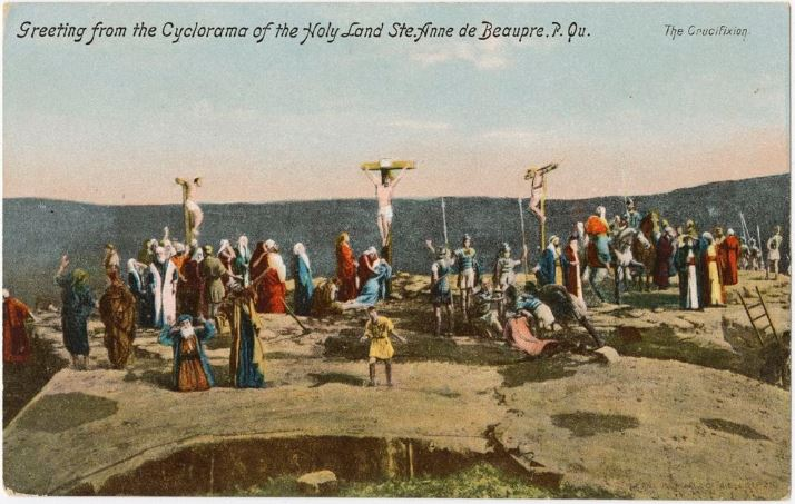 Greeting from the Cyclorama of the Holy Land, Ste. Anne de Beaupré. P. Qu. : the crucifixion